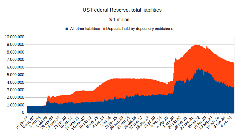 Graph of the development of line item "Other deposits held by depositary institutions" in the Federal Reserve balance sheet as part of the balance sheet total. Source: weekly H.4.1 releases of the Federal Reserve, section 10, Statement of Condition of Each Federal Reserve Bank.